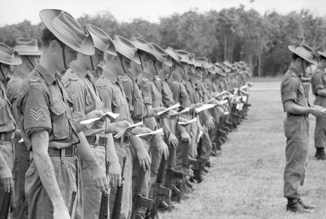 AWM image BEL/69/0788/VN. Nui Dat, South Vietnam. 1969-11. Line up of soldiers of 9th Battalion, The Royal Australian Regiment (9RAR), remember fallen comrades during a church service which was part of a farewell parade. Note how each is holding an order of service in one hand and his weapon in the other hand. The Battalion is due to sail for home on the troopship HMAS Sydney.